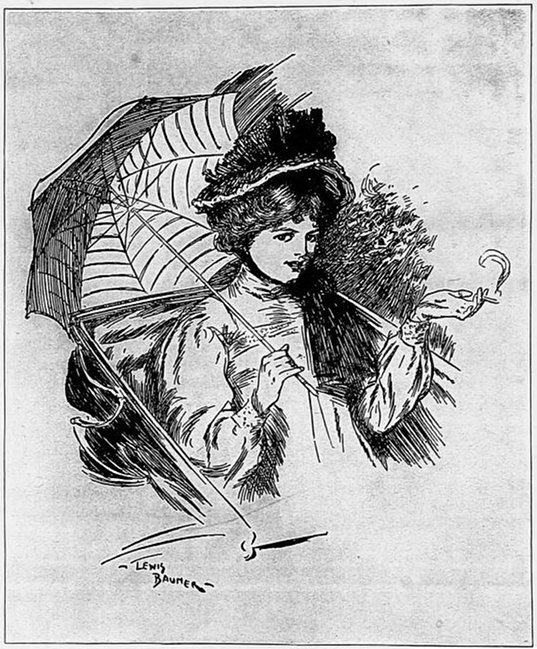 Frontispiece to The Sea Lady by H.G. Wells, published in 1902 by D. Appleton and Co. The caption reads: "'Am I doing it right?' asked the Sea Lady."